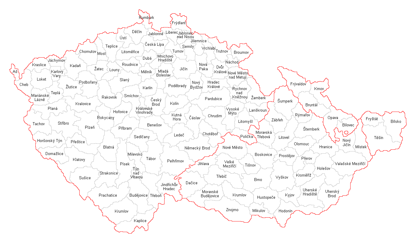 District counties in Czech lands in 1900